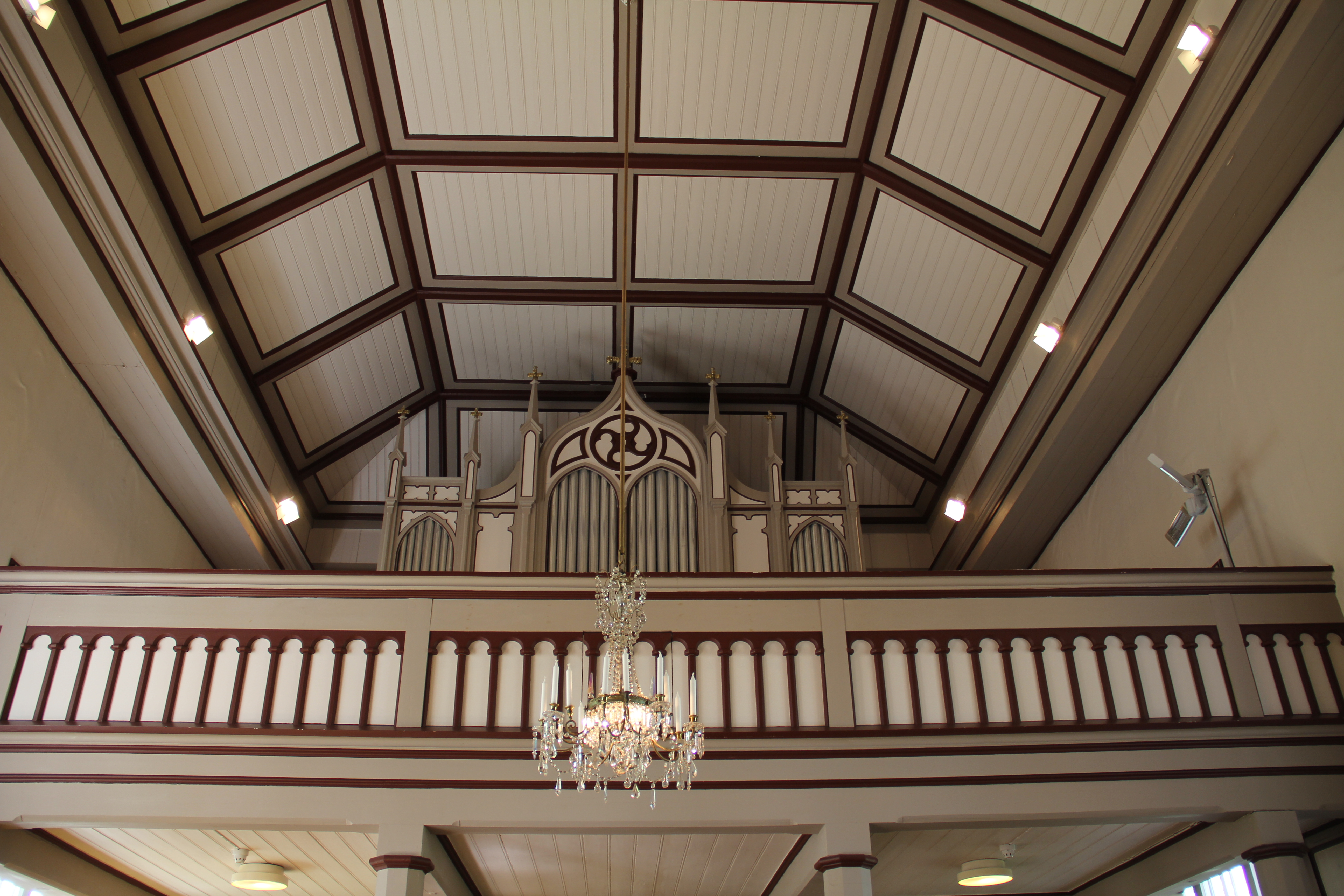 Interior of Pöytyä church, Pöytyä, Finland. Completed in 1793, designed by swedish architect Carl Christoffer Gjörwell Jr and built by Mikael Piimänen. Organ lectern.